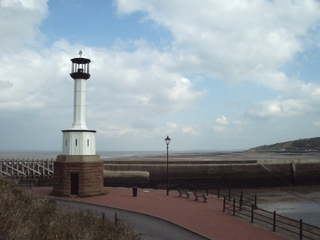 Old lighthouse, Maryport